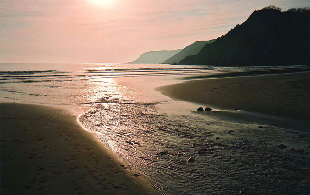 December sunset at Caswell Bay The stream and sea reflect the sunlight. Pwlldu Head and Oxwich Point on the right.